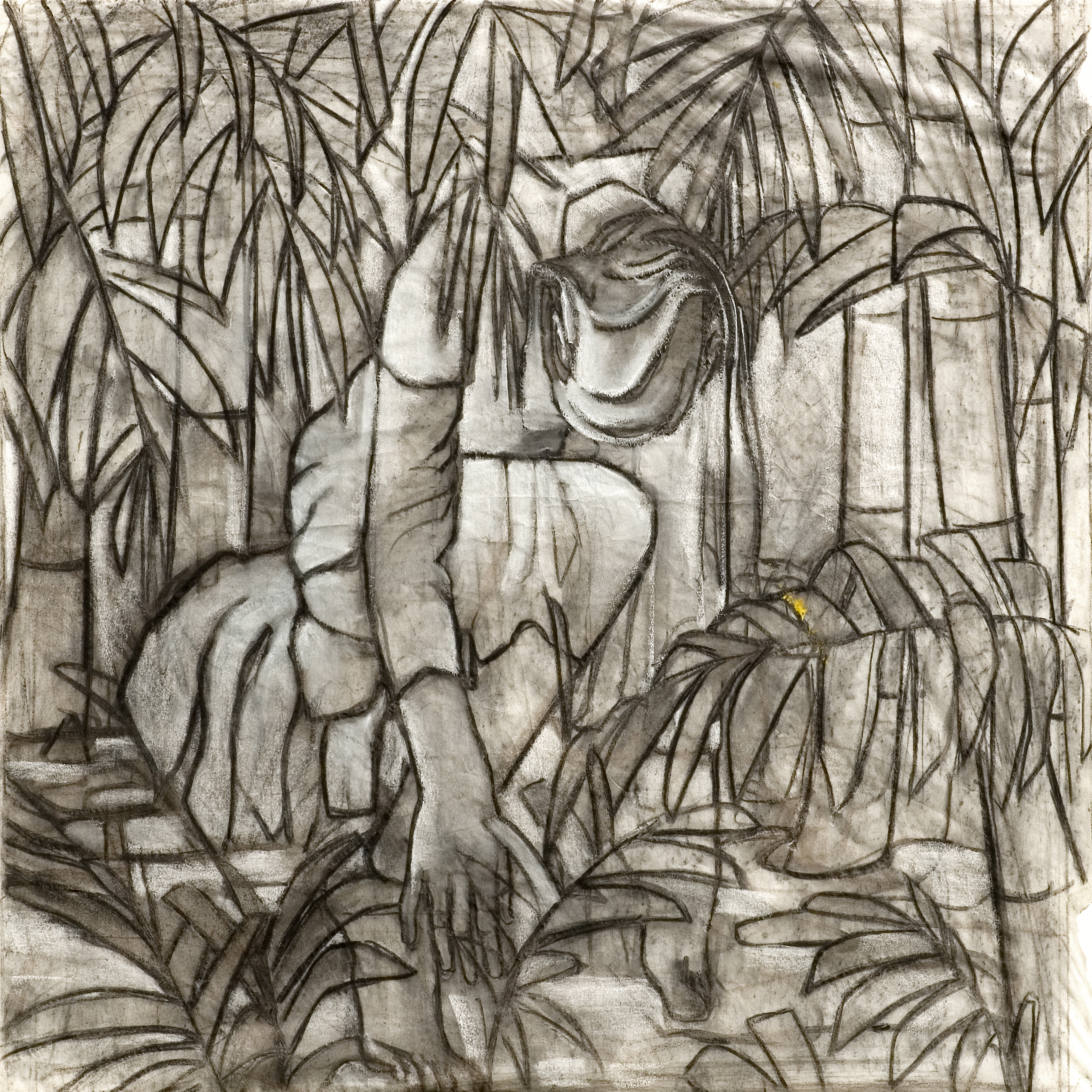 author: Amaya Salazar, Source: user:BINGENE, Permission: BINGENE has copyright to all of Amaya Salazar's work, medium: charcoal on butter paper